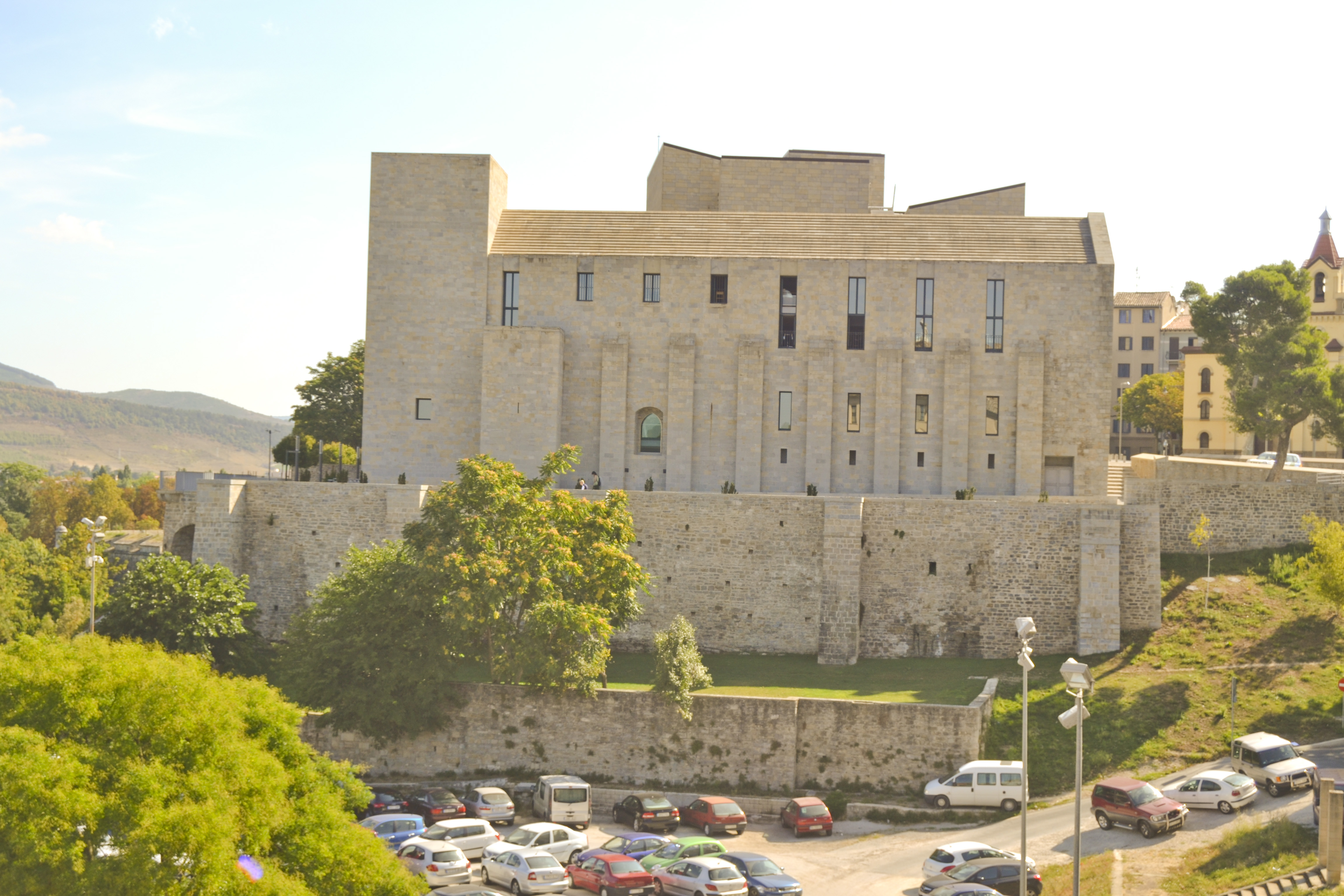 Palace of the Kings of Navarre. Pamplona. Navarre, Basque Country..